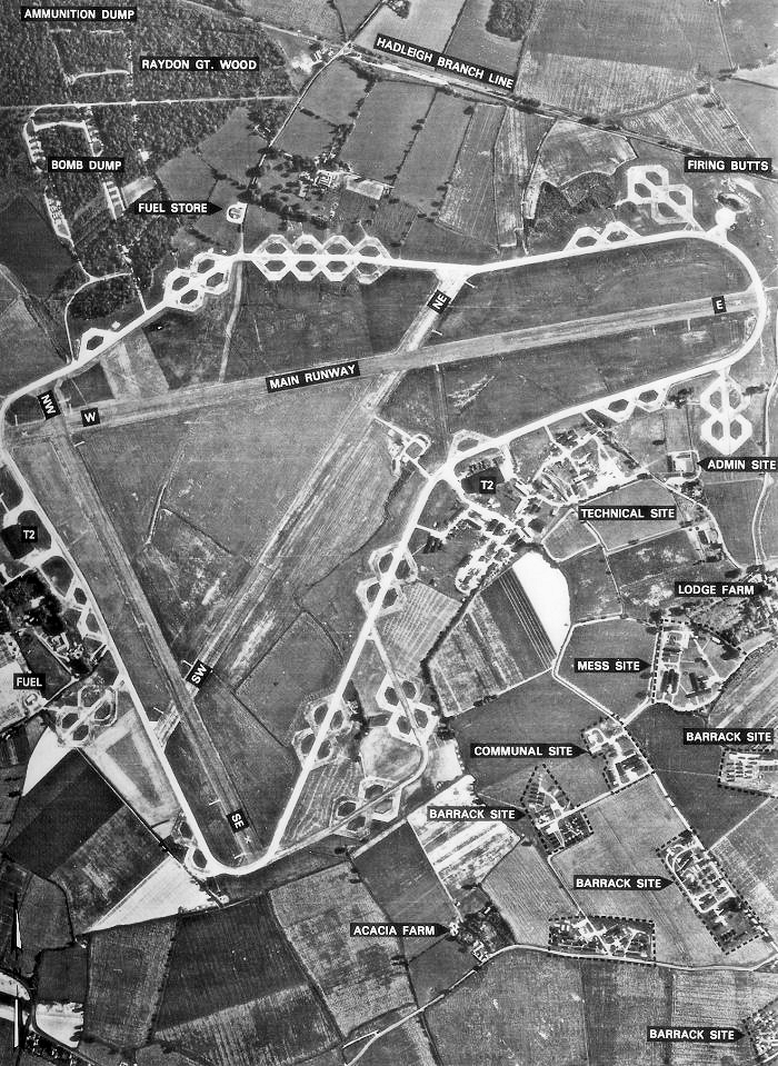 Aerial mapping photograph of RAF Raydon, England.